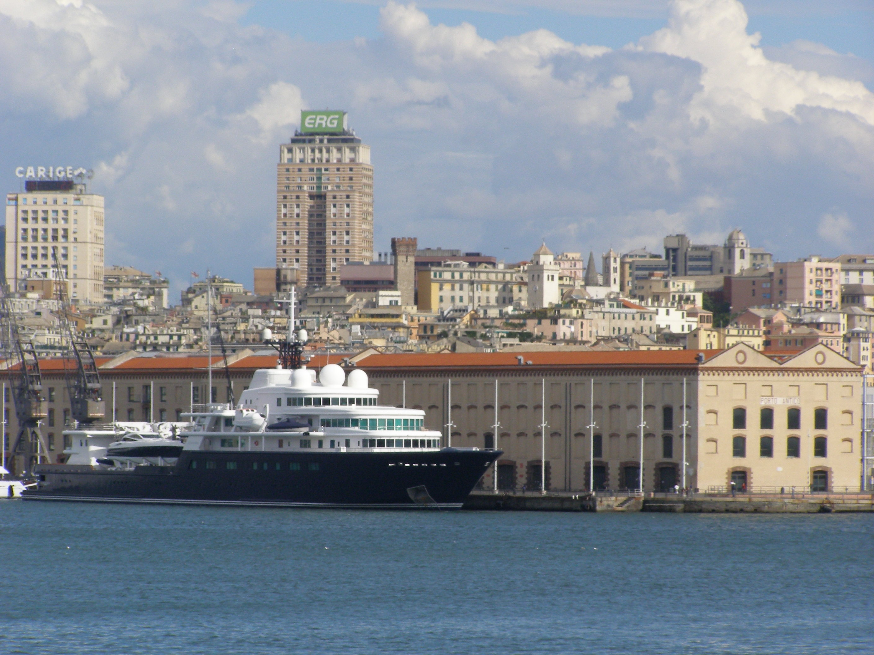 Genoa - Porto Antico, Radiant superyacht at the old cotton warehouses